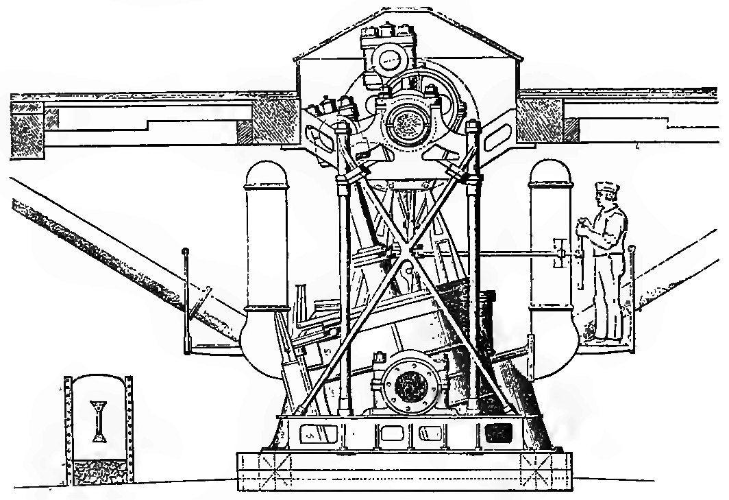 Engines of the Black Eagle Illustration from Eardley-Wilmot: The Development of Navies